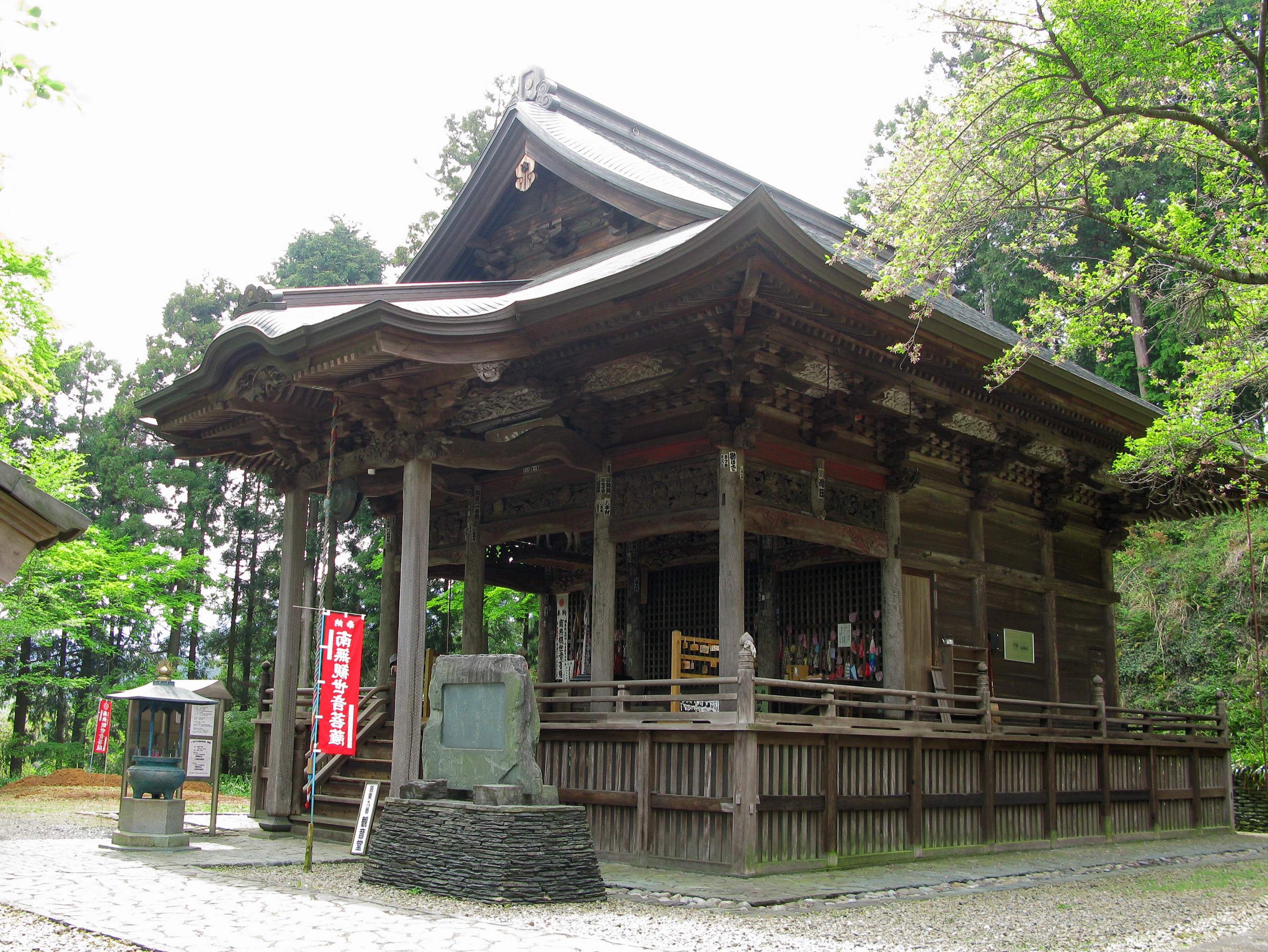 Kannondō hall of Jikō-ji temple in Tokigawa, Saitama